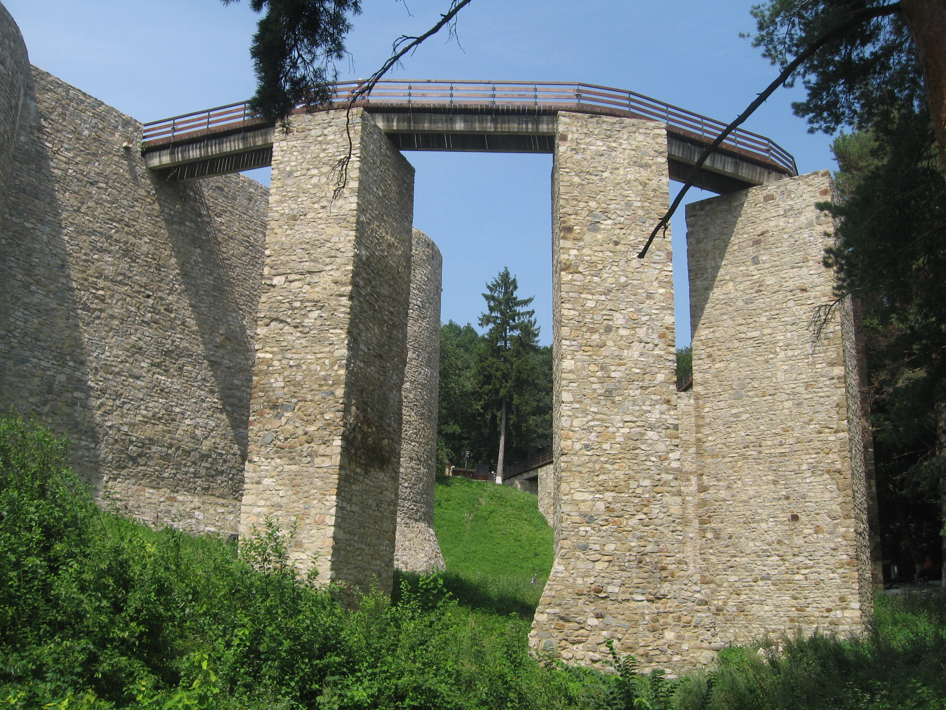 Neamț Citadel